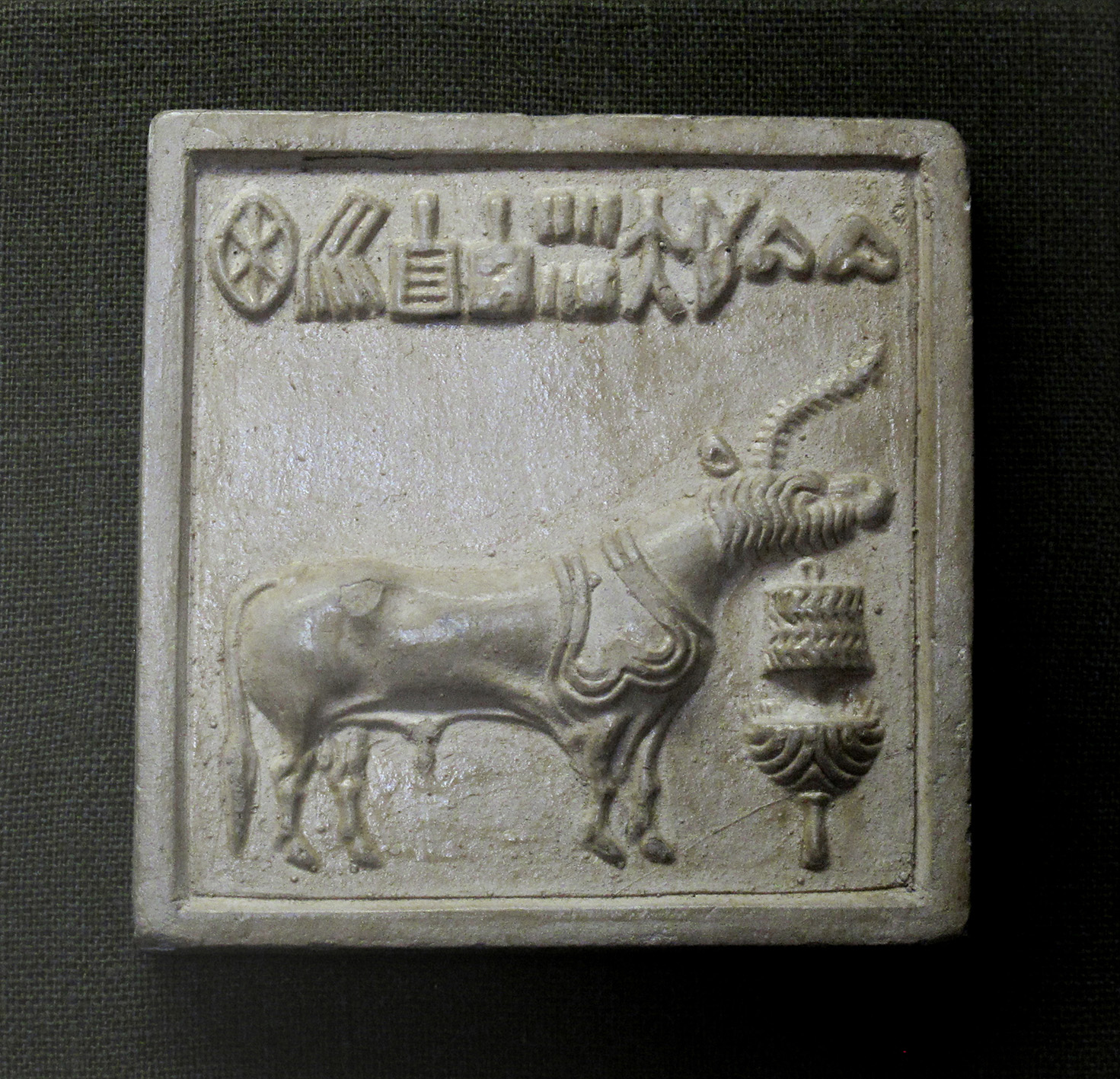 "Unicorn". Mold of a seal from the Indus valley civilization, 2500-1500 BC. Approximativaly 3,5 cm x 3,5 cm. Chhatrapati Shivaji Maharaj Vastu Sangrahalaya, (ex Prince of Wales Museum) Mumbay. India.